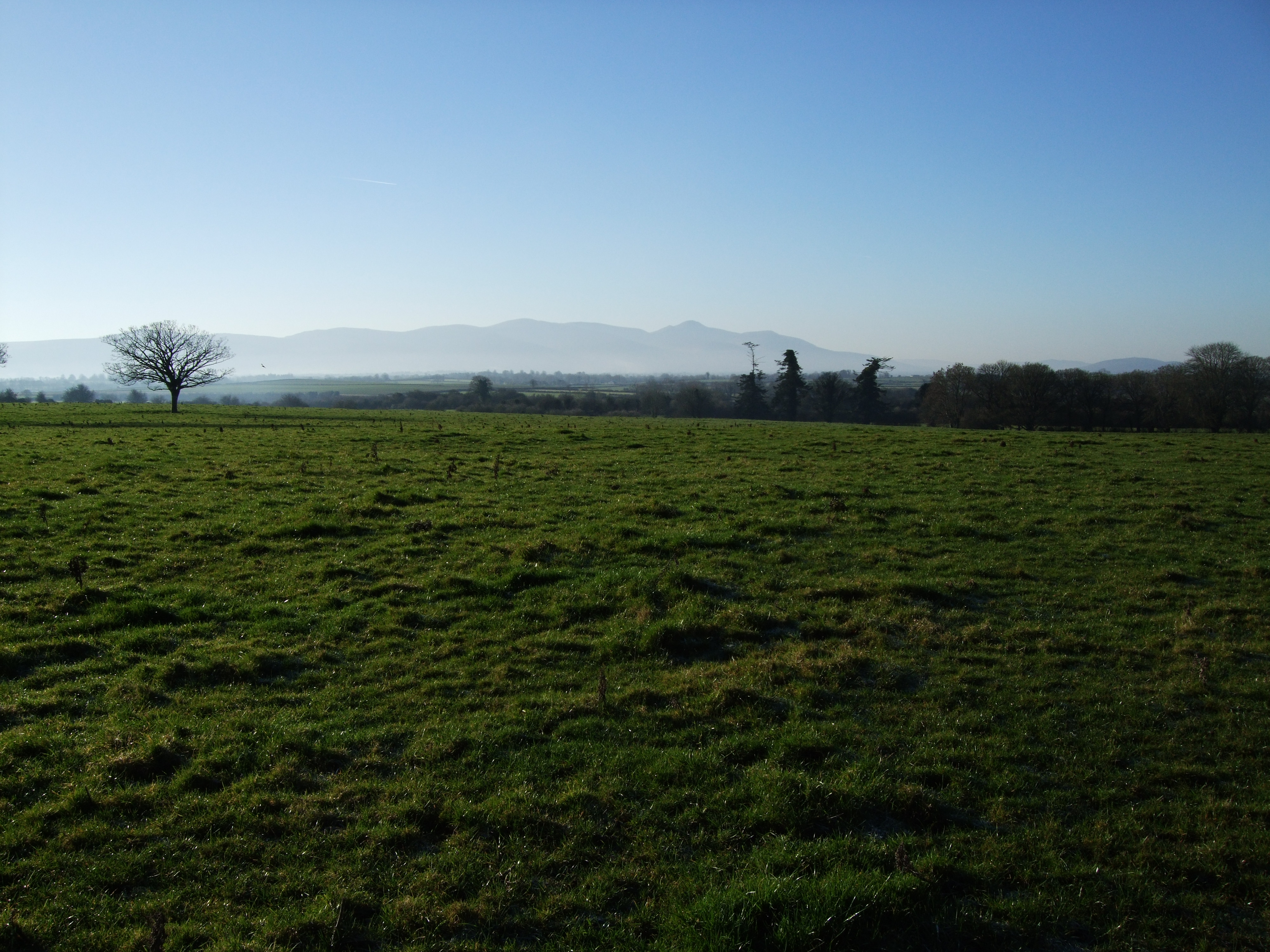 The Golden Vale in winter